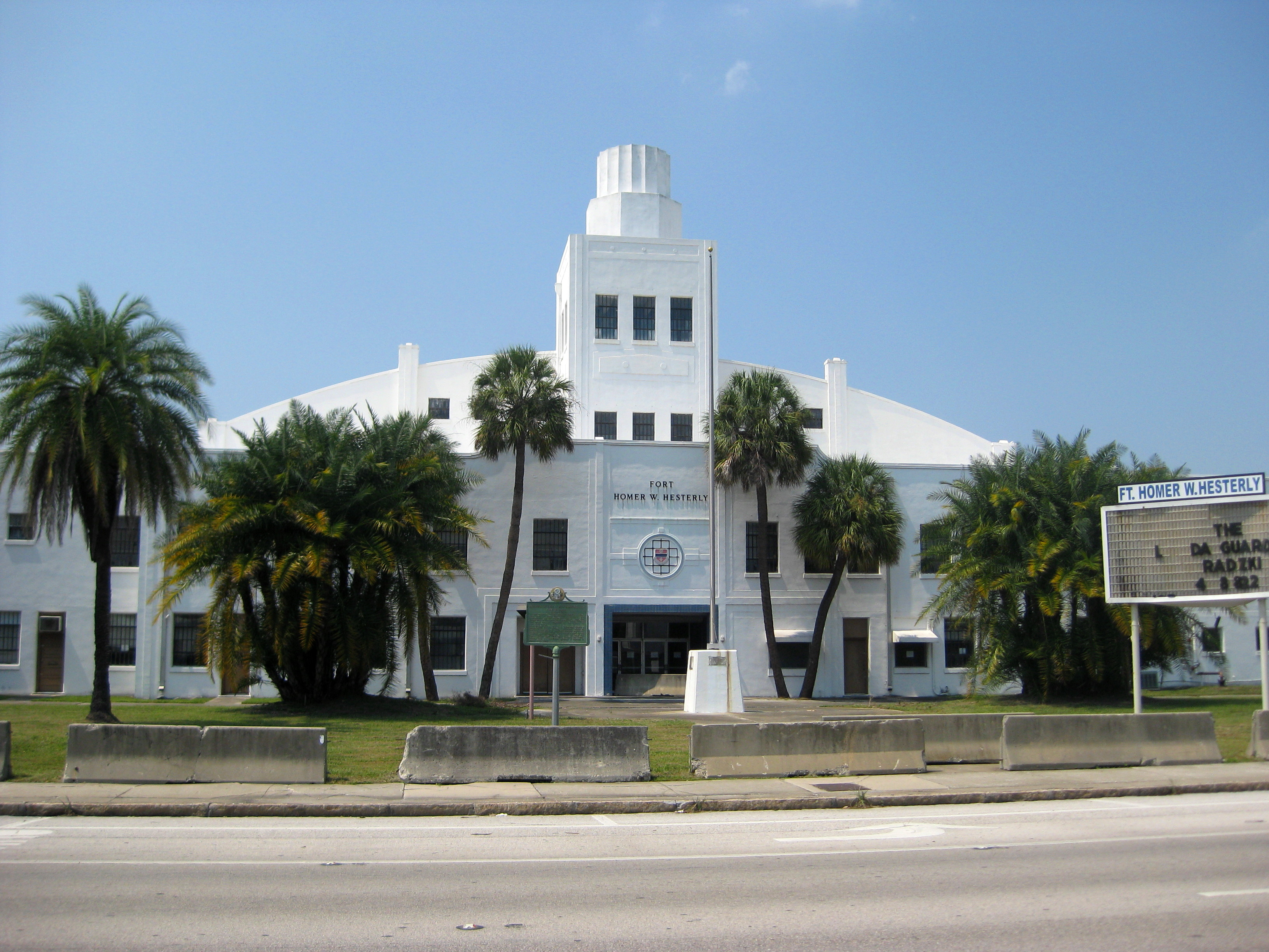 The former Fort Homer W. Hesterly Armory in Tampa, Florida. Soon to be Tampa Jewish Community Center South Campus.